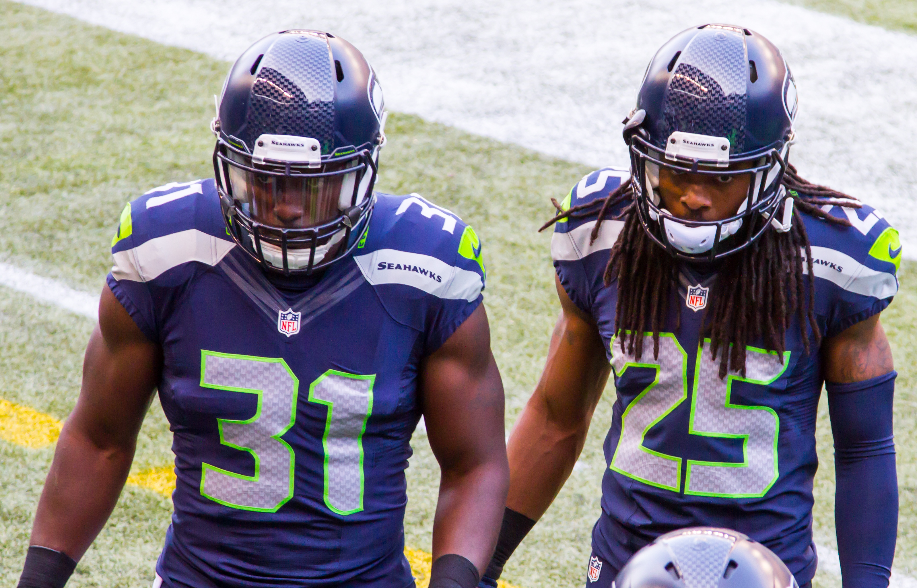 Kam Chancellor and Richard Sherman in 2014 preseason vs. Chicago Bears